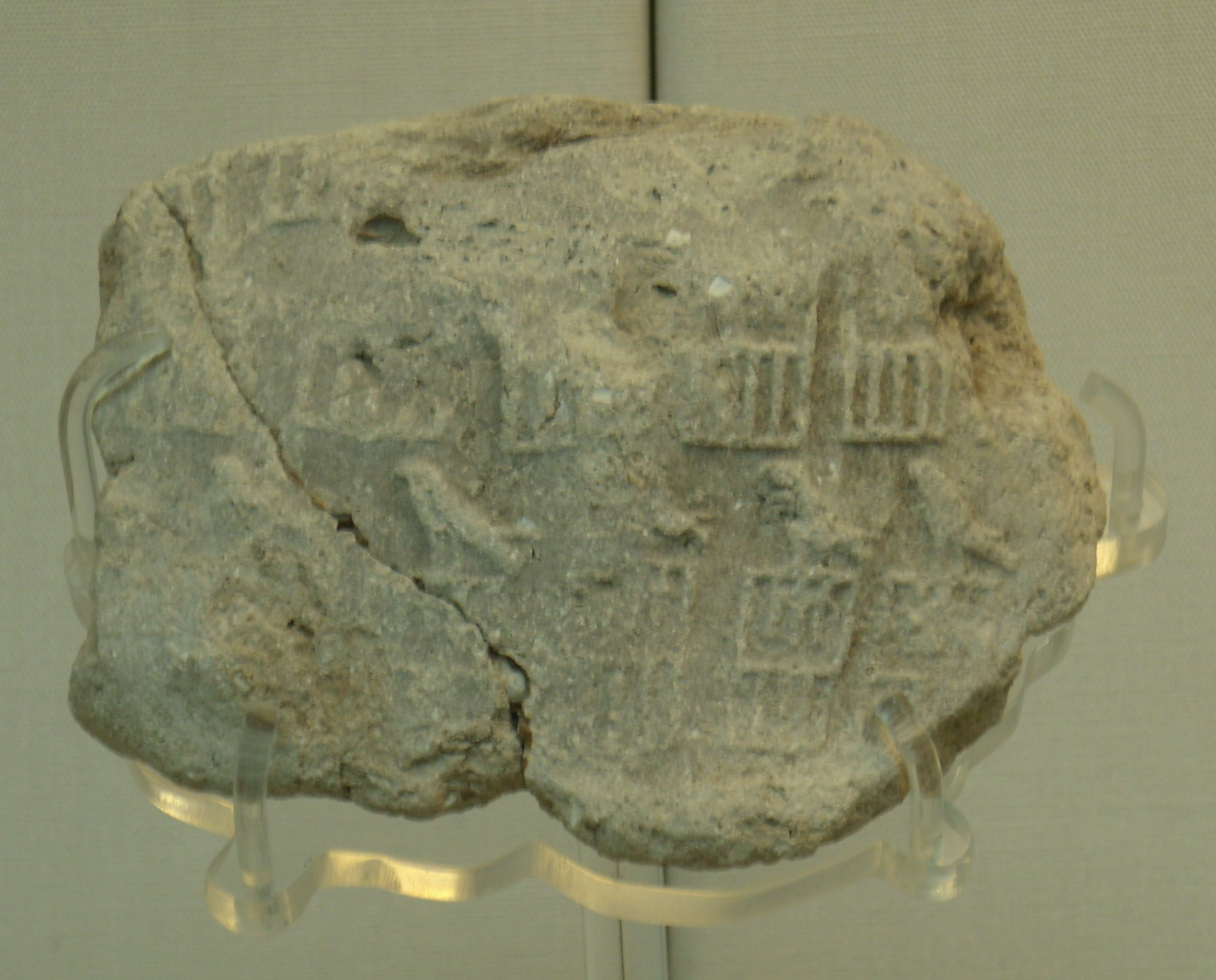 Seal impression of the Egyptian king Djer, First Dynasty, around 3000 BC, from Abydos, British Museum